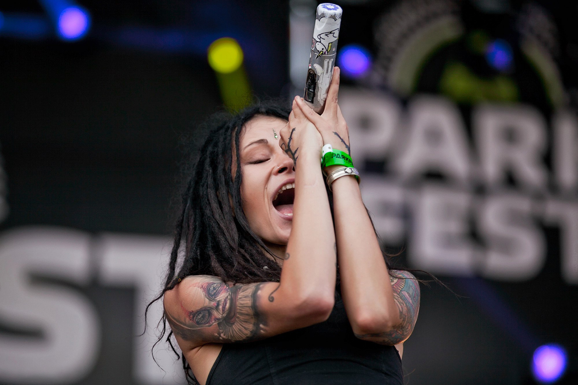 СЛОТ 2016